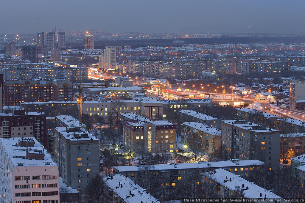 Kemerovo